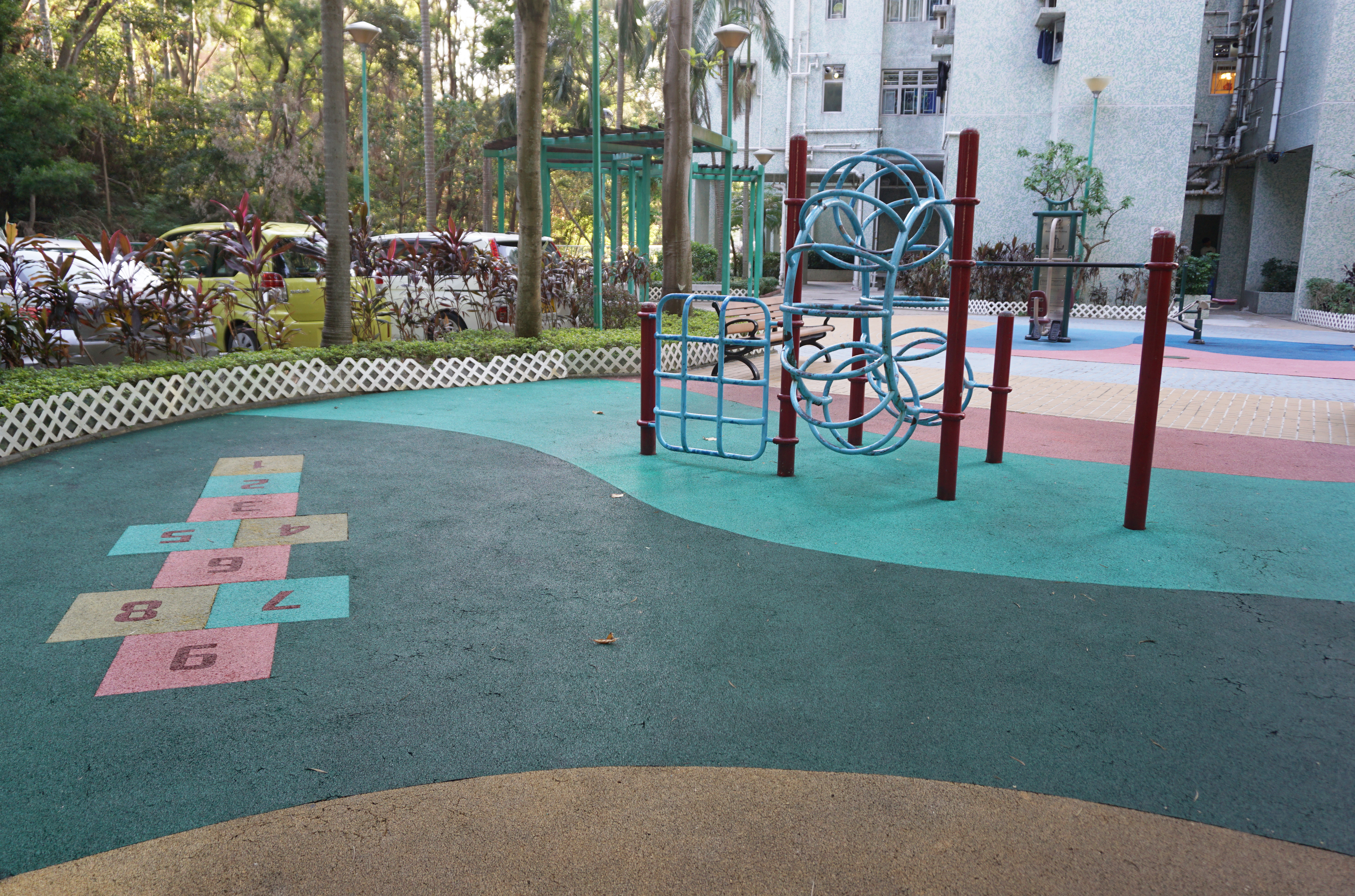 Saddle Ridge Garden in Ma On Shan, Hong Kong.